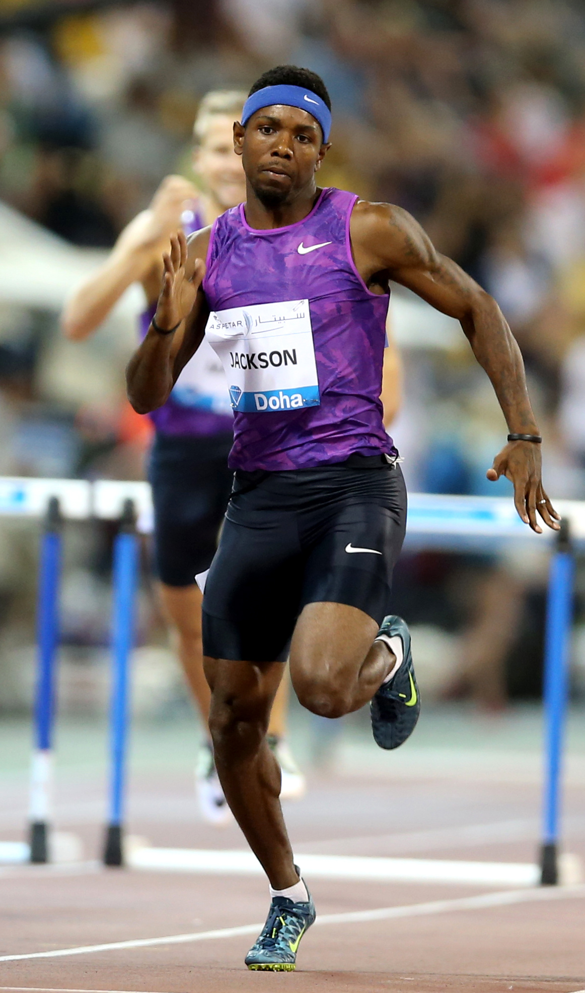 American Bershawn Jackson wins gold in men's 400M hurdles at the Doha Diamond League meeting. Pic by Mohan